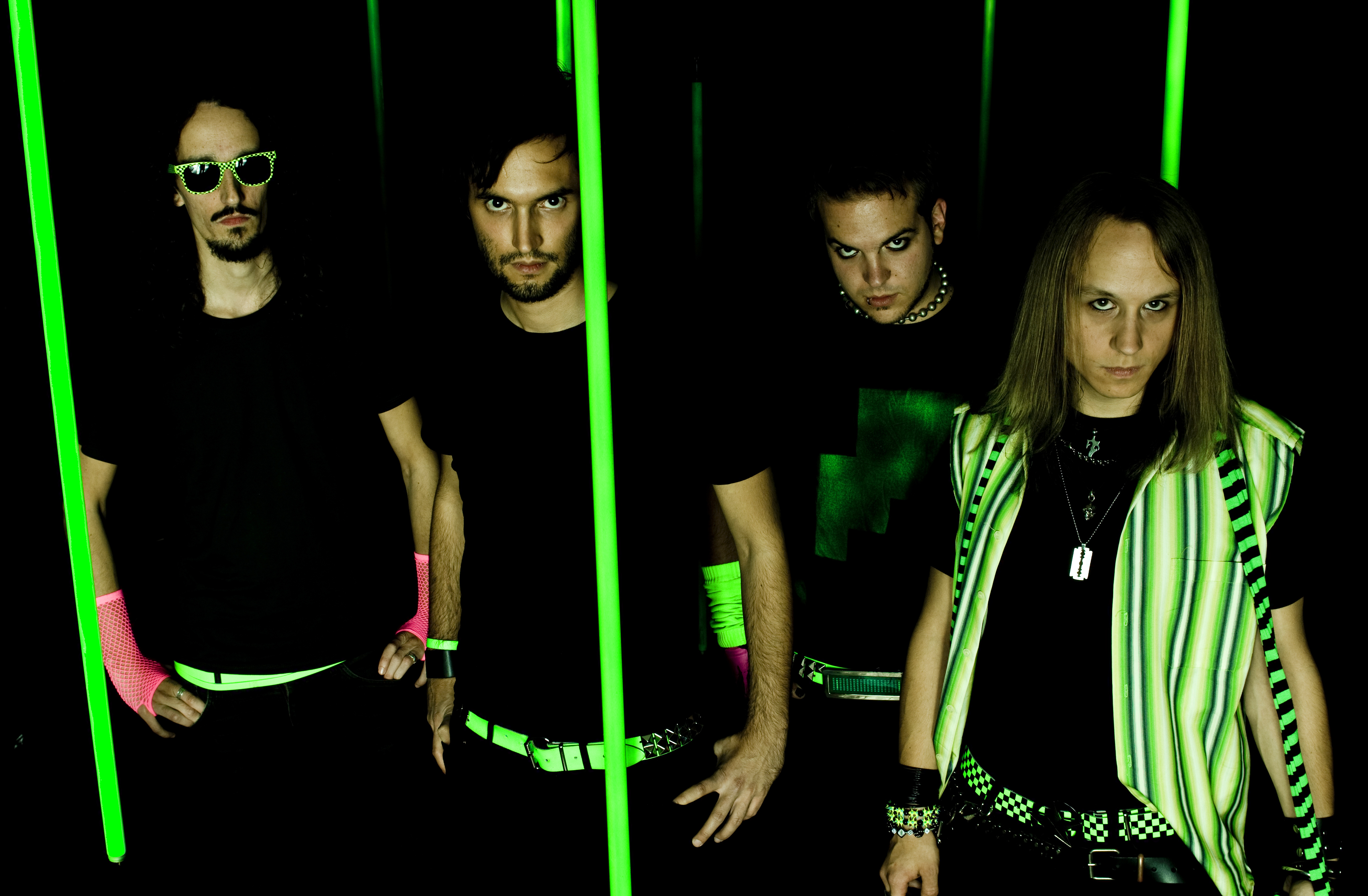 The Picture was taken by Tom Behrens at RACERFISH for the Band's 2010 Record Release Shooting of "The Arcade Decayed"